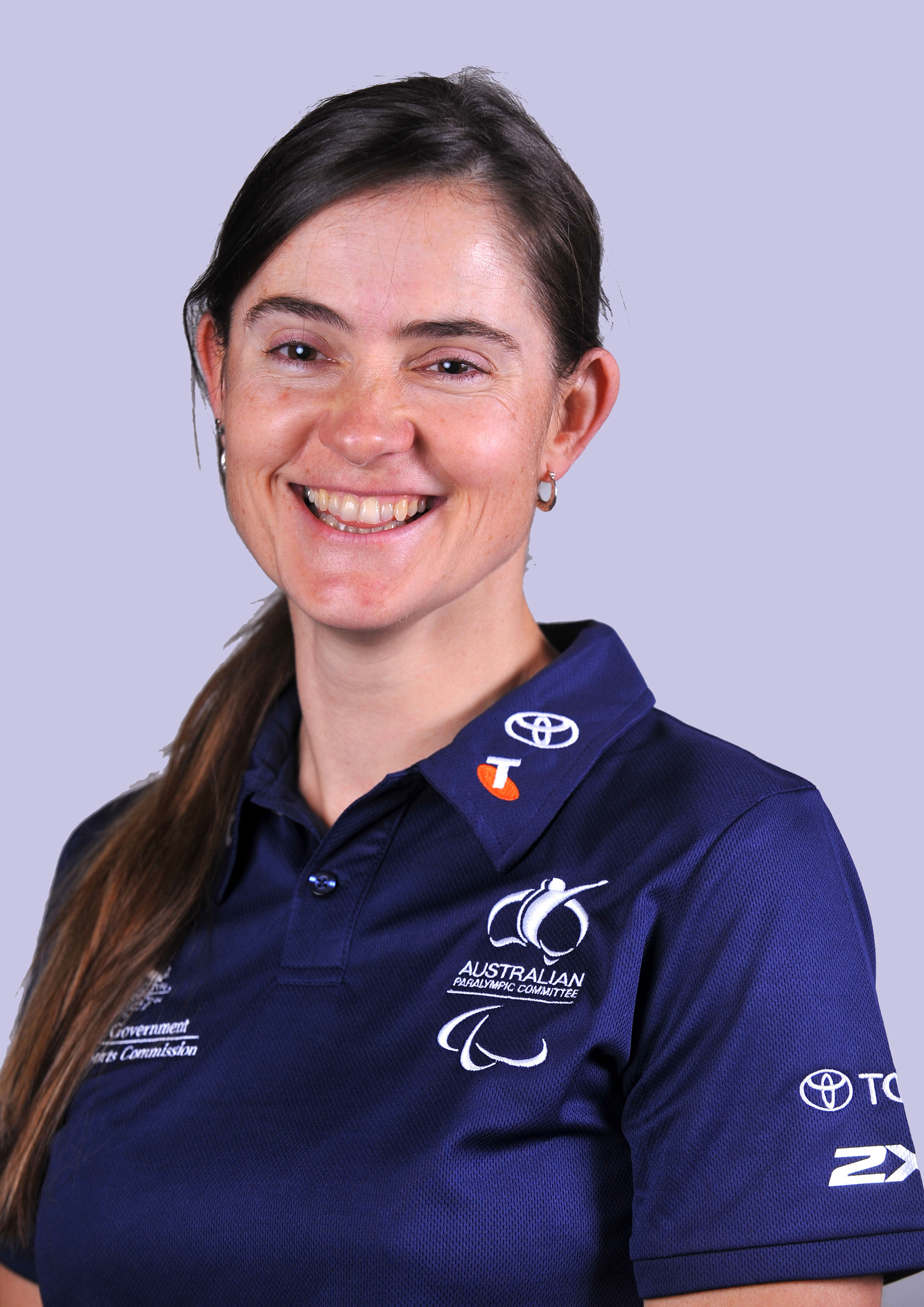 Portrait of Australian cyclist Felicity Johnson, 2012 Australian Paralympic (shadow) Team athlete